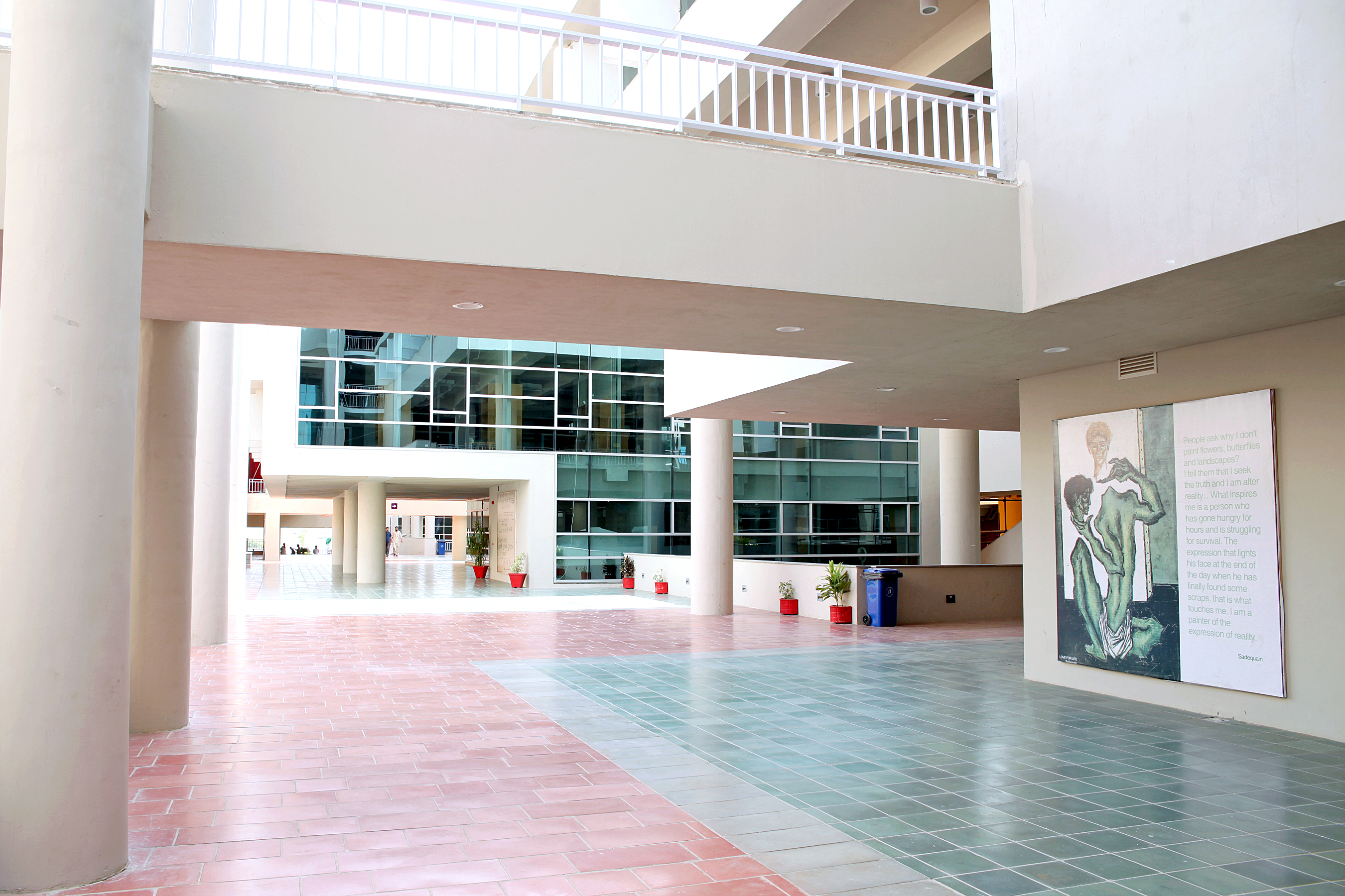 Educational Photo